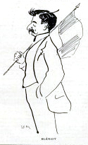 Caricature of Louis Blériot in "La vie parisienne"